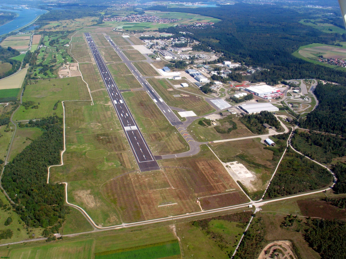 Aerial view of Baden Airpark (Flughafen Karlsruhe/Baden-Baden)